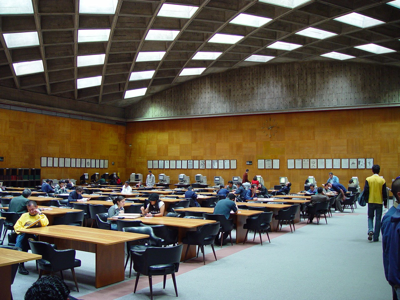 This room and dome was designed by Colombian architect Rafael Esguerra (1922-2000)